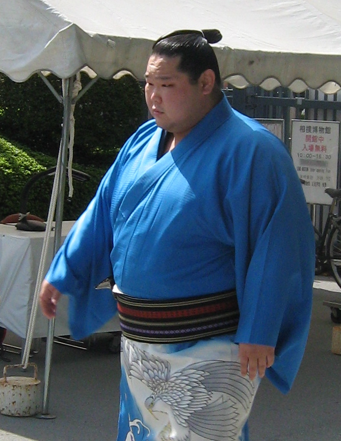 Picture of Ushiomaru Motoyasu, taken at Sep 2008 tournament